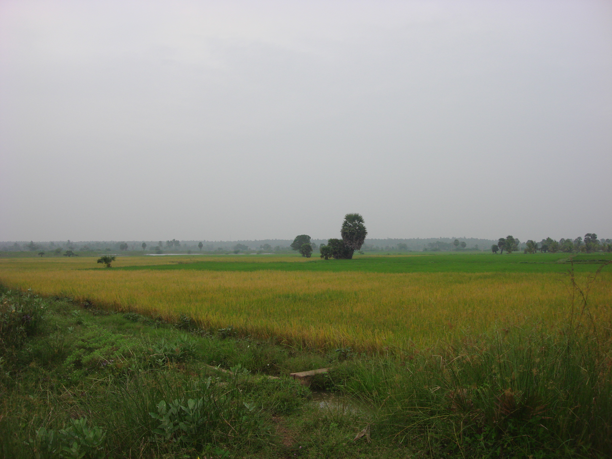 This photos were taken at Mudachikkadu,Peravurani, Thanjavur District, TamilNadu, Mudachikkadu village is nice and cool climate and natural place